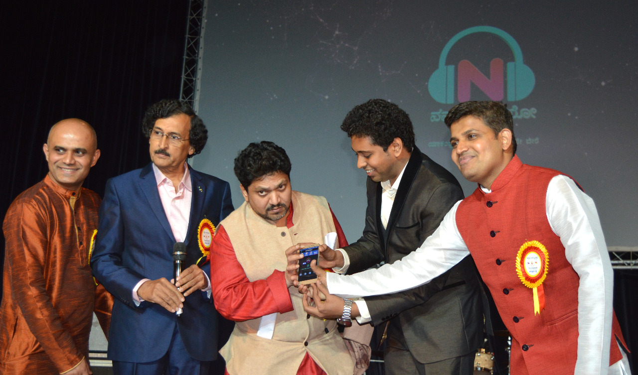 Nammradio Europe Channel Launch